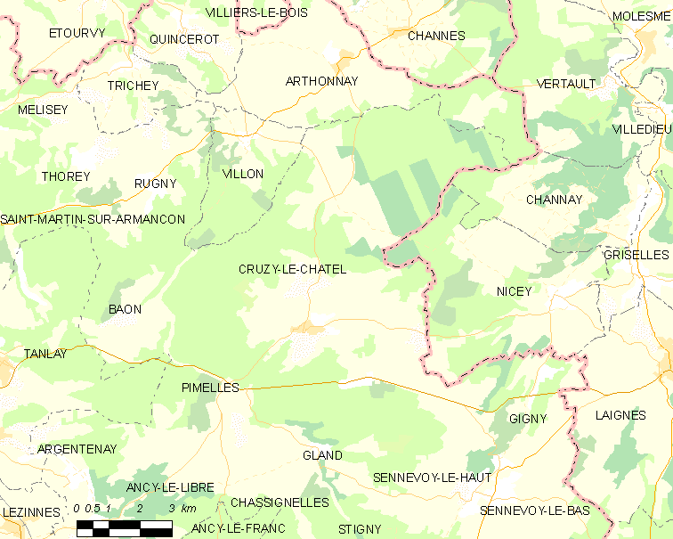 Map of French municipality Cruzy-le-Châtel